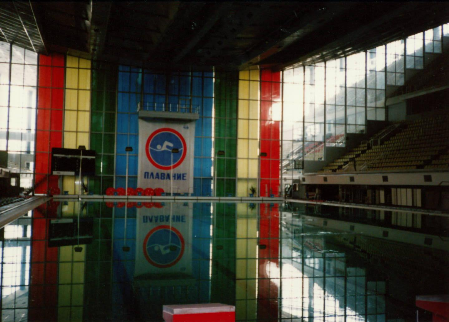 Olimpiysky Pool, used for swimming events in the 1980 Olympics. The diving area can be seen behind the glass wall.